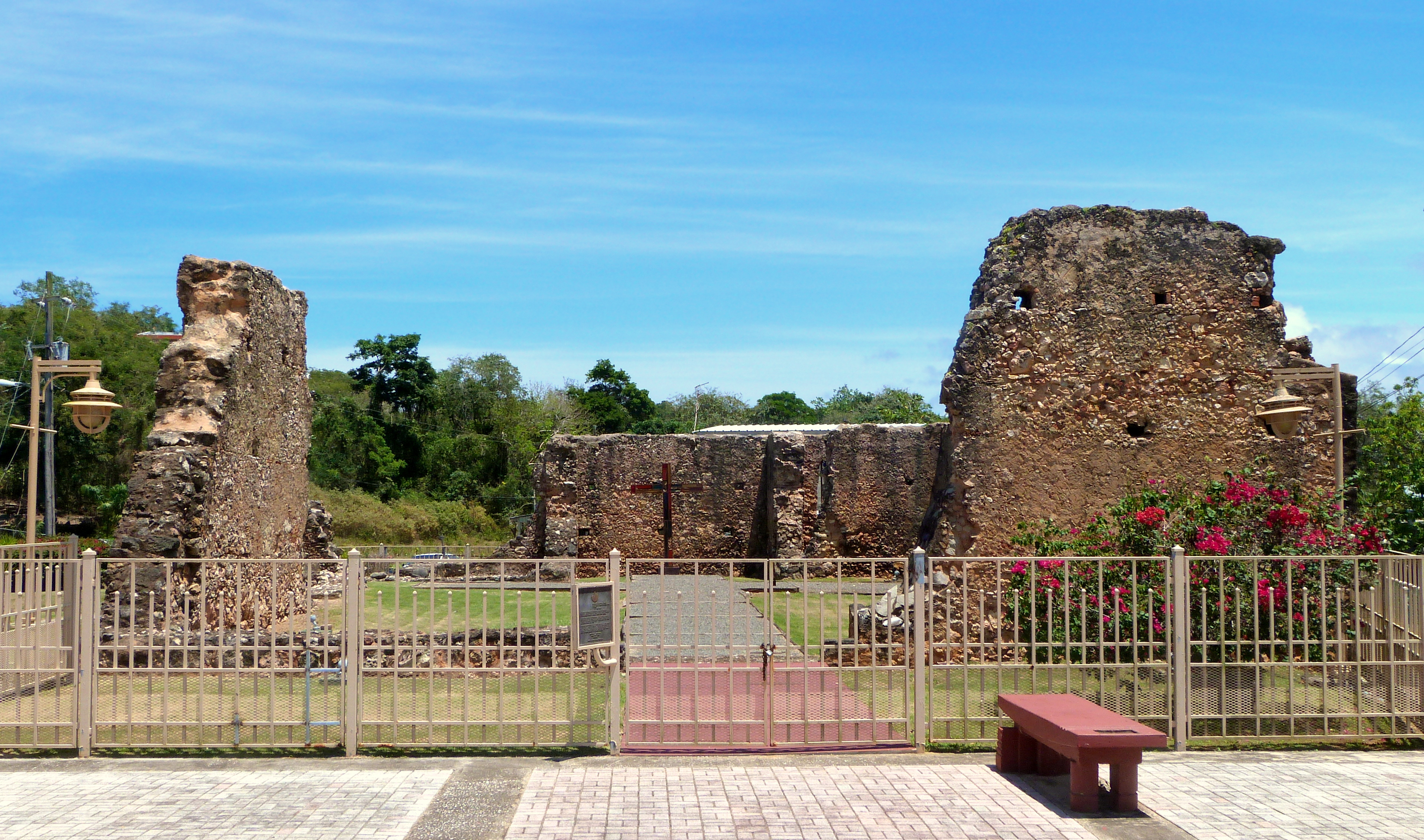 The historic Hermitage of San Antonio of Padua of Tuna ruins (built ca. 1730, abandoned 1819), located on Calle Ermita, Tuna settlement, Isabela muncipality, Puerto Rico, are listed on the U.S. National Register of Historic Places.